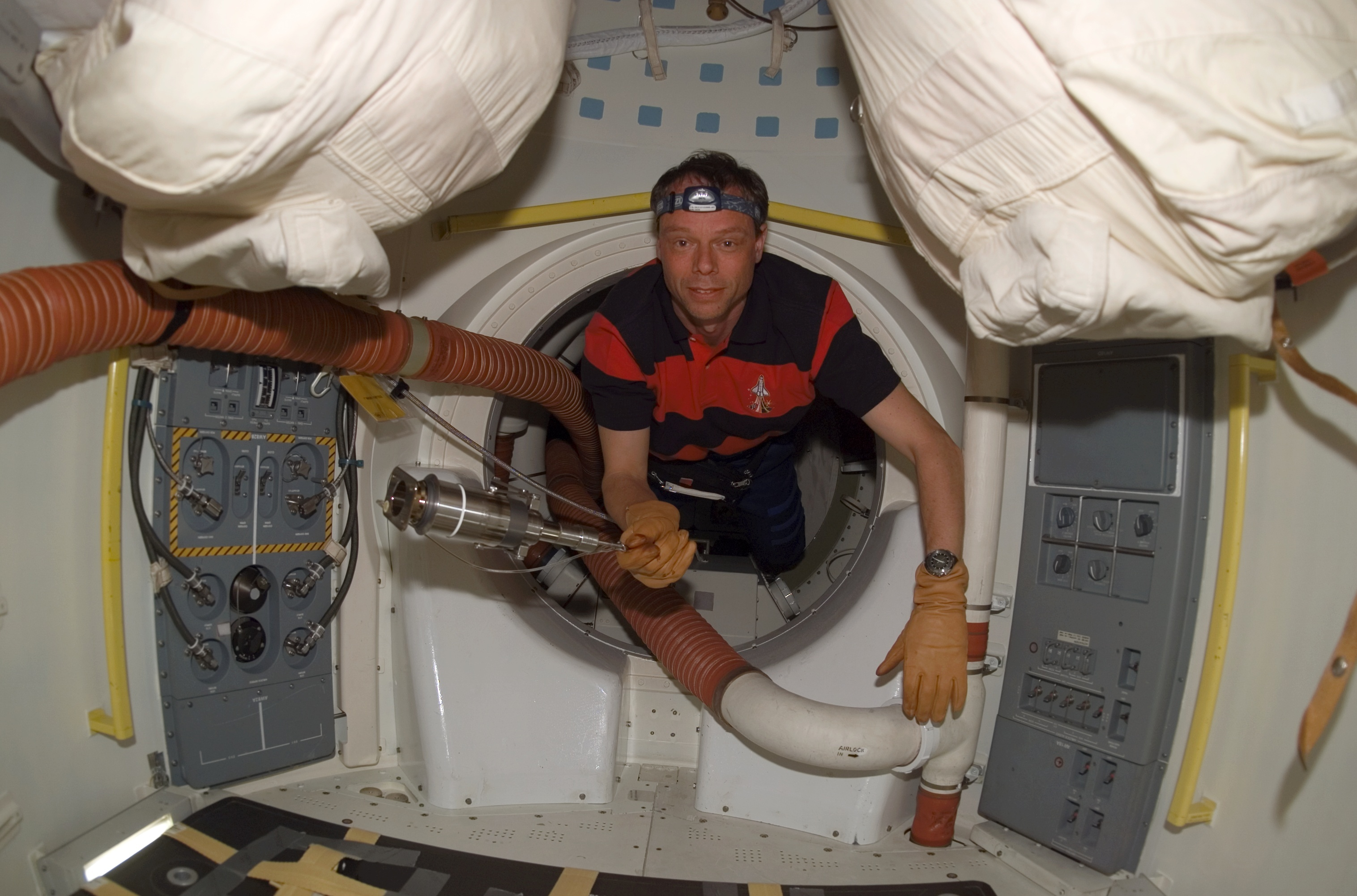 STS-116 Shuttle Mission Imagery S116-E-05361 (10 Dec. 2006) --- European Space Agency (ESA) astronaut Christer Fuglesang, STS-116 mission specialist, holds a tool as he floats through a hatch on Space Shuttle Discovery during flight day two activities.